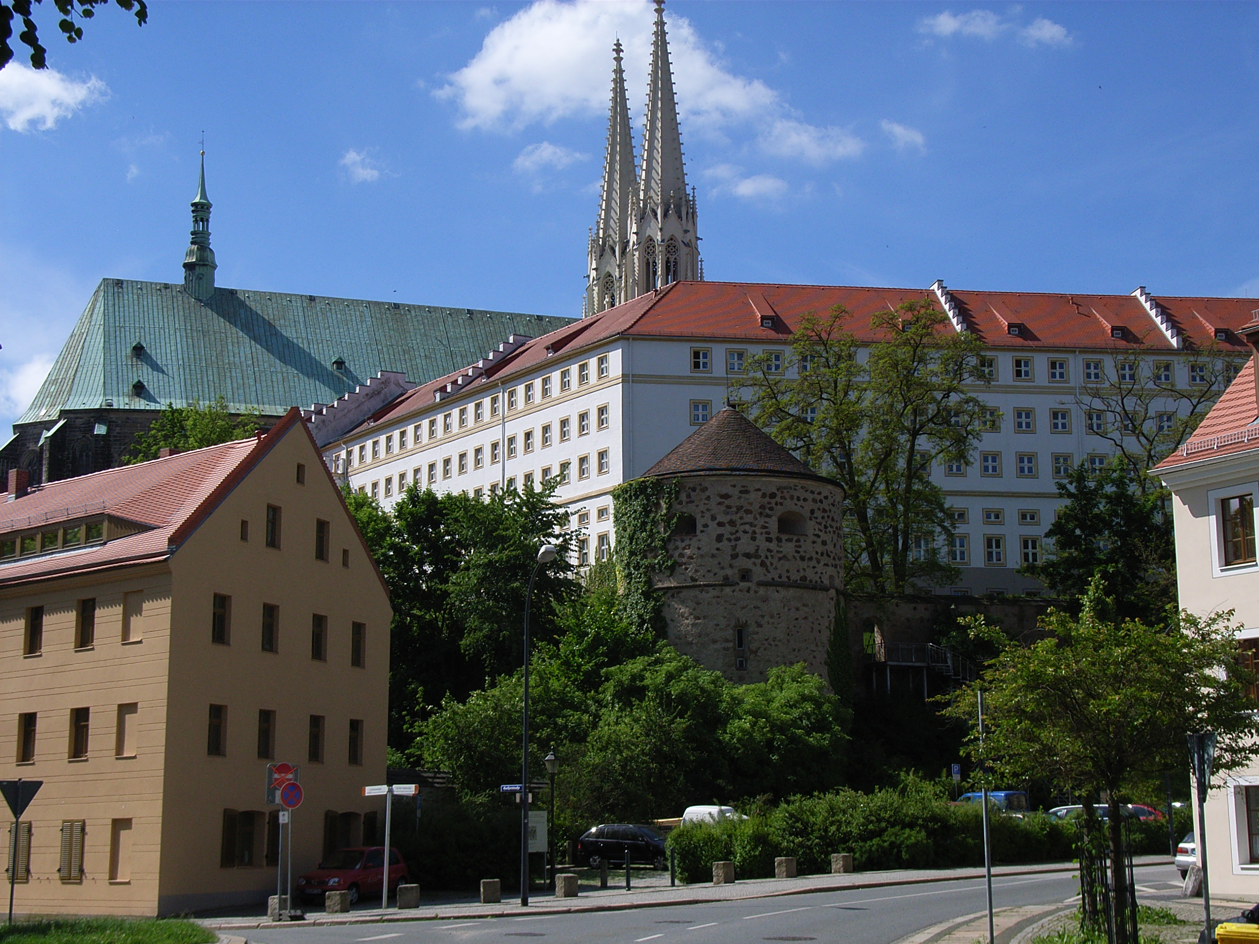 Tower "Hotherturm" in Görlitz, Saxony